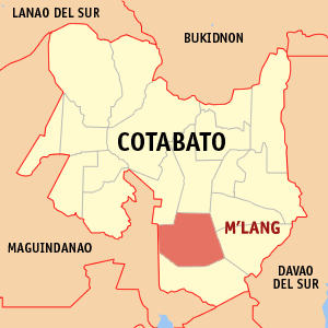 Map of the Cotabato showing the location of M'lang